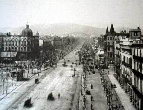 Passeig de Gràcia, Barcelona, foto ca. 1890